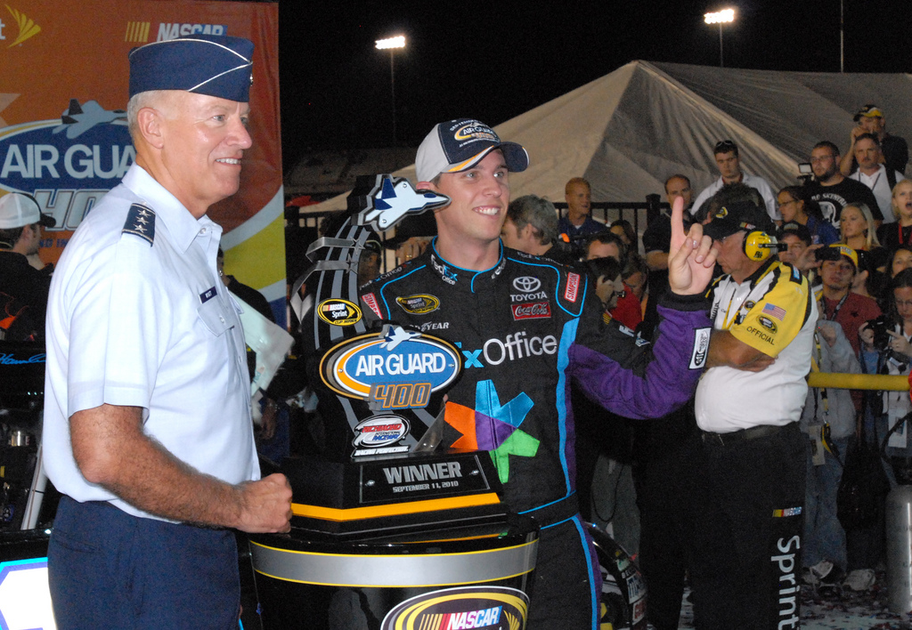 Air Force Lt. Gen. Harry M. Wyatt III, the director of the Air National Guard, presented the Air Guard 400 trophy to the winner of the Sept. 11 race, Denny Hamlin, who secured a number-one seed in the NASCAR "Chase for the Cup" at Richmond International Raceway. As part of his duties as grand marshal, Wyatt was given the opportunity to announce, "Gentlemen, start your engines" in front of the near sellout crowd. (Photo by Army Staff Sgt. Andrew H. Owen, Virginia National Guard)